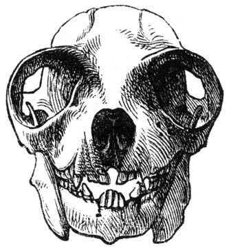 Original caption: "Fig. 65. Schädel von Propithecus diadema, Fließmaki, von vorn gesehen" Translation (partly): "Skull of Propithecus diadema (diademed sifaka), seen from front" Size: 1.1 x 1.2 in² (2.8 x 3.1 cm²) Originator